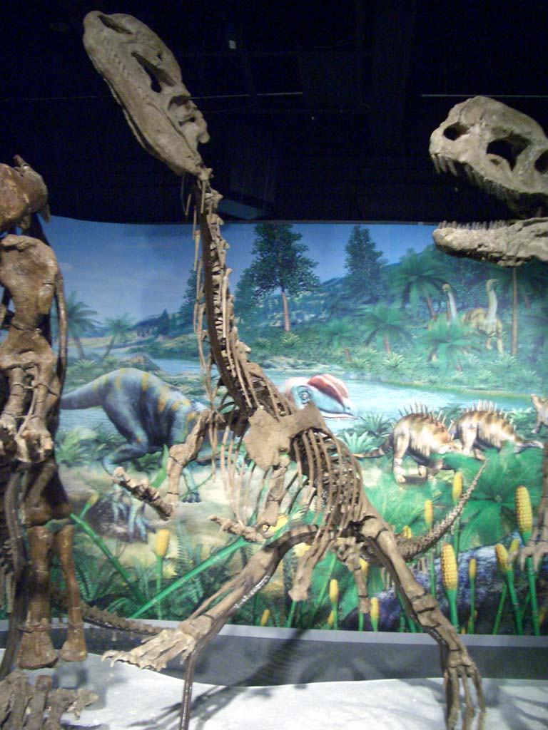 Dilophosaurus sinensis skeleton displayed in Hong Kong Science Museum